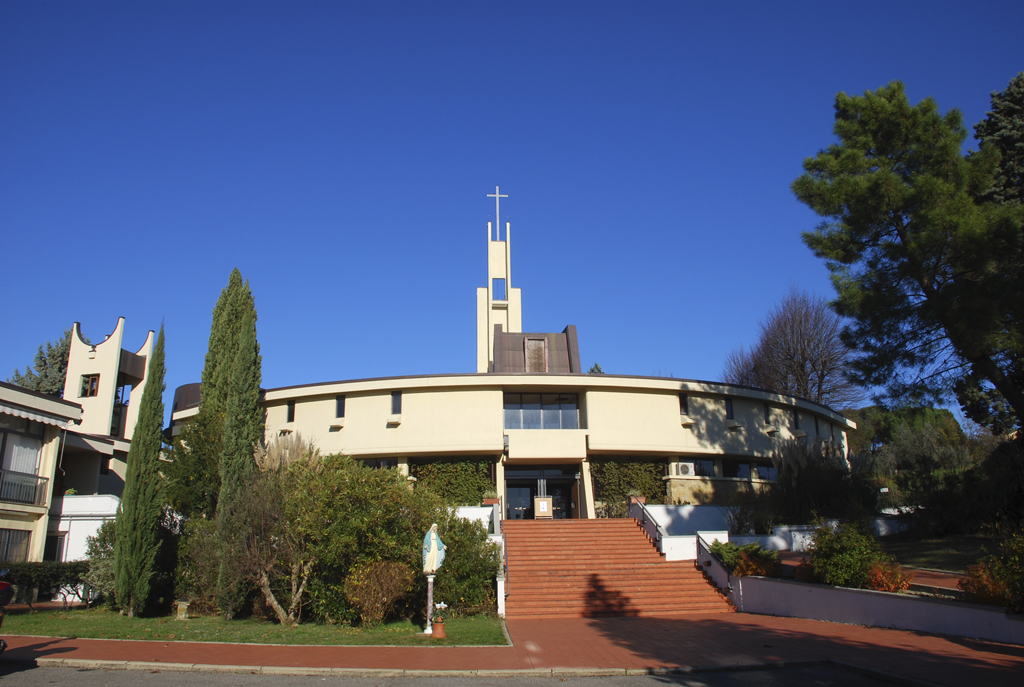 The Church of San Leone Magno (by Luigi Lucherini), Florence, Italy. Facade, Stairway and Bell Tower.